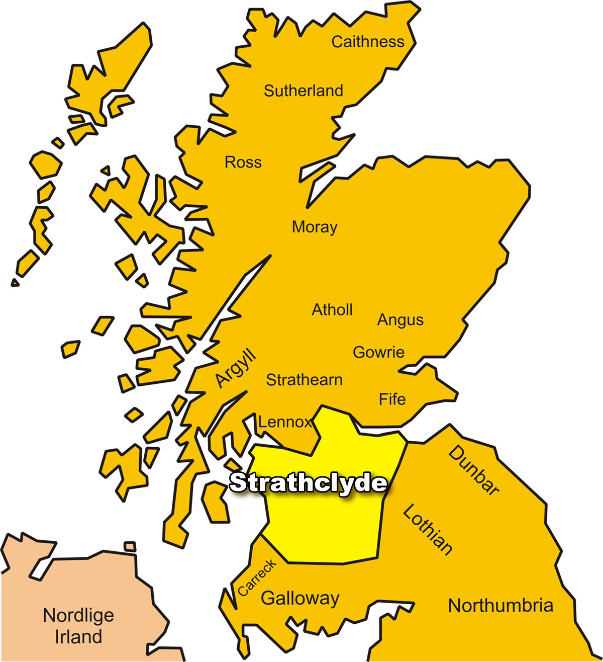 Map of the historical kingdom of Strathclyde (Kart over det historiske kongedømmet Strathclyde)